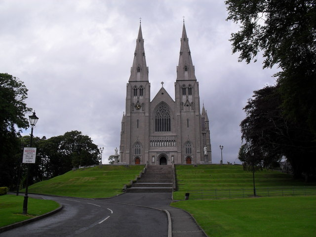 St. Patrick's Cathedral (R.C.), Armagh On Cathedral Road - seat of the Armagh Diocese.